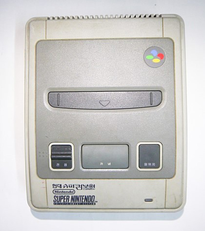 Main body of Hyundai Super Comboy(Super Famicom and Super Nintendo Entertainment System's Korean version)